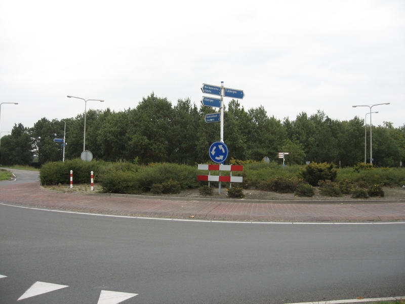 Roundabout near Harbrinkhoek, Overijssel, the Netherlands